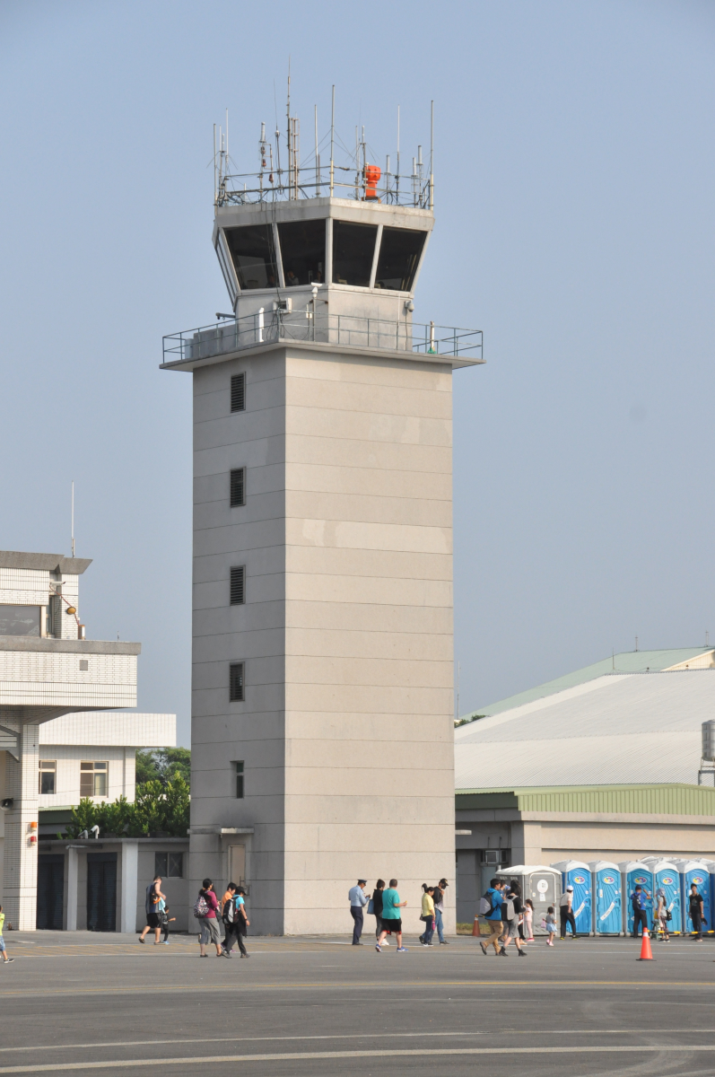 Tainan Airport (RCNN) Tower